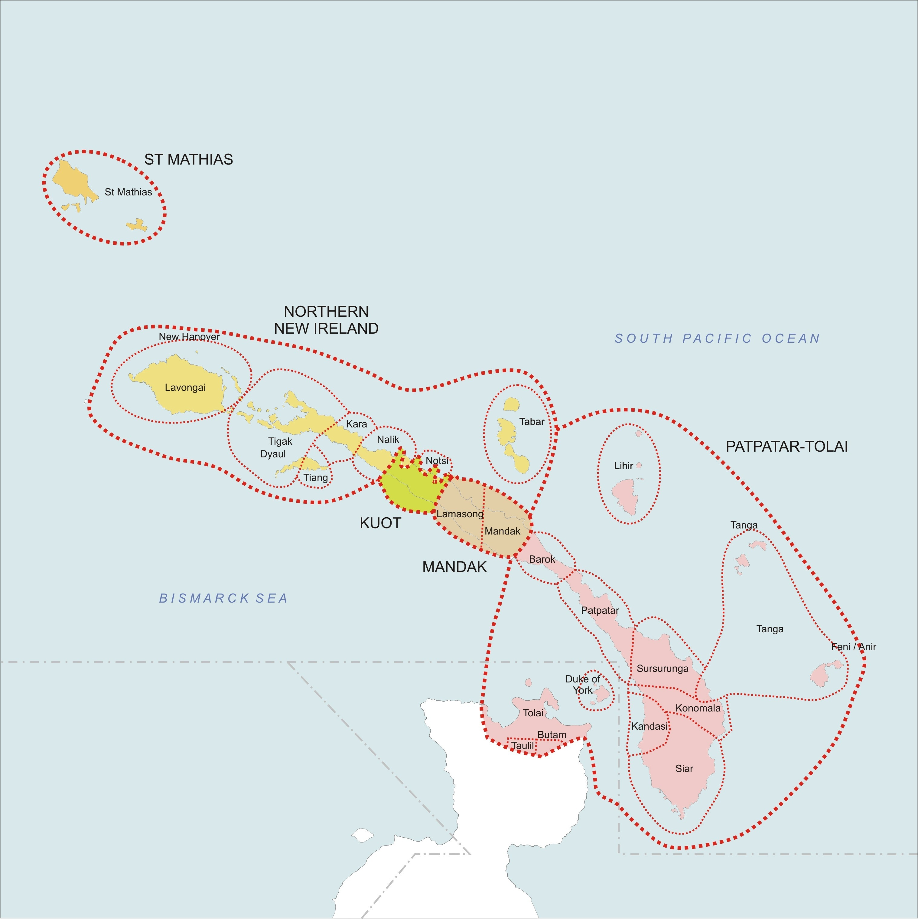 Languages of New Ireland, Papua New Guinea. Based on Susanne Küchler: Malanggan: Art, Memory and Sacrifice, 2002